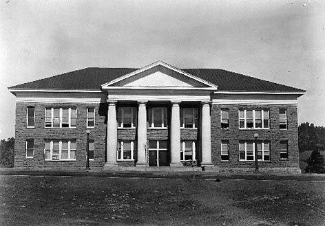 The Teacher Training School (now Blome Building) in 1922. The structure's portico and columns make an impressive statement to this day. Call number: NAU.PH.82.7.5